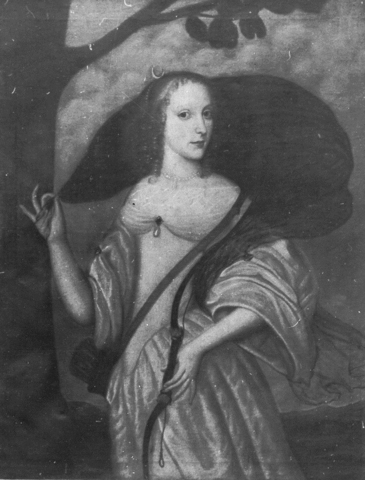 Princess Christine of Baden-Durlach (1645-1705) as Diana